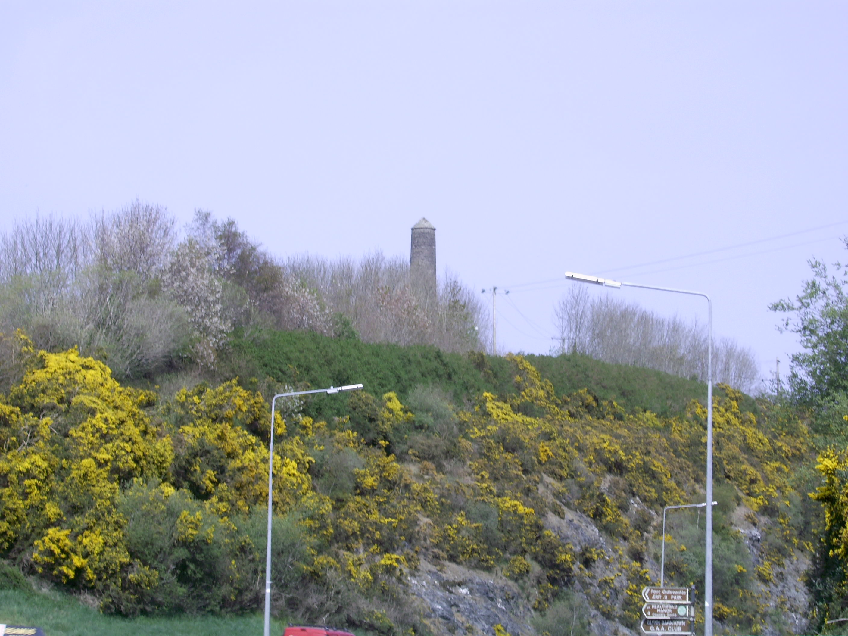 Rond_Tour_Wexford.jpg